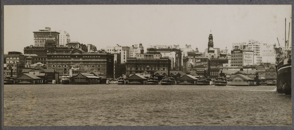 Part Of: Powerhouse Museum Collection General information about the Powerhouse Museum Collection is available at Persistent URL